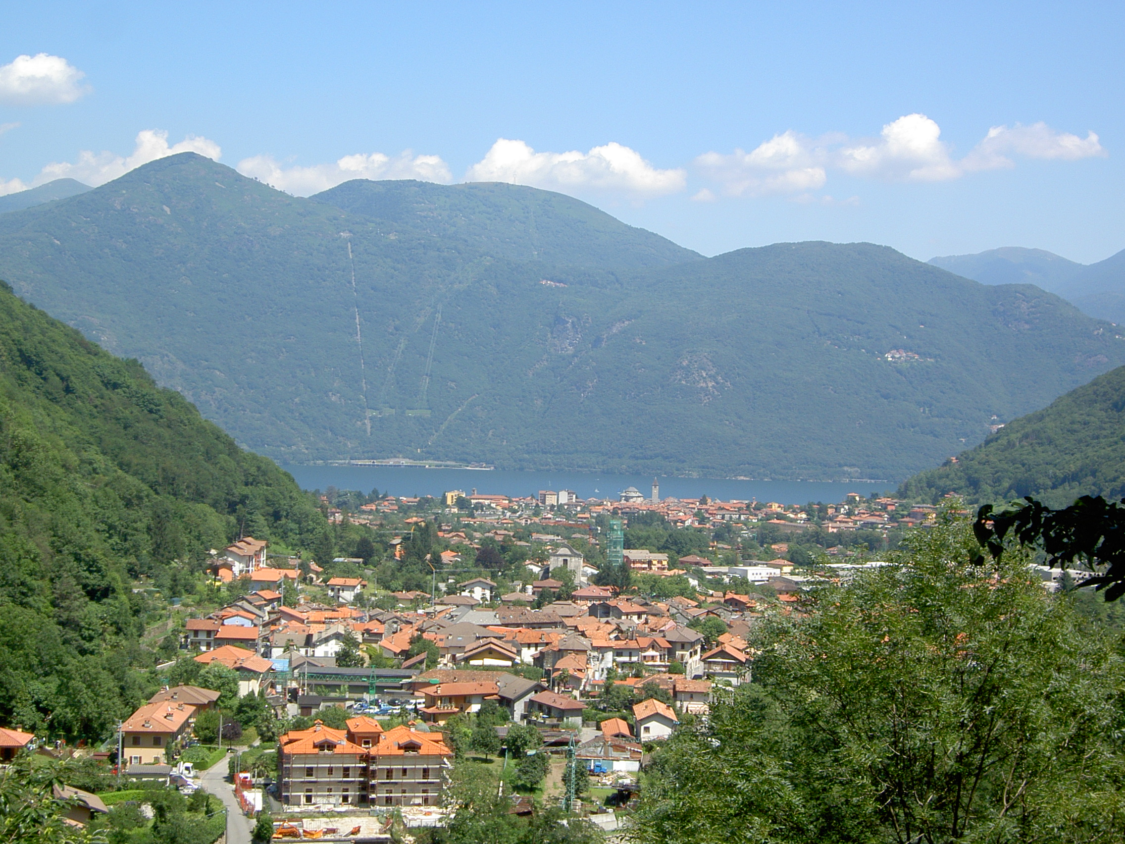 Cannobio, Italy